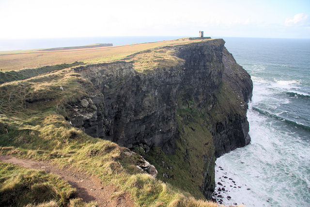 Hag's Head Hag's Head, with Moher Tower, marks the southern end of the Cliffs of Moher.